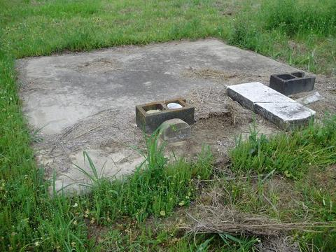 Proposed gravesite of Charlie Christian in Gates Hill Cemetery, Bonham, Texas, based on eyewitness accounts from the funeral taken by Christian biographer Craig McKinney.